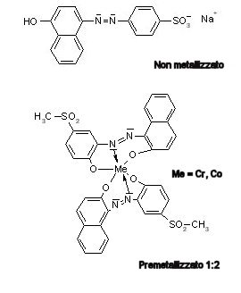 Acid dyes (azo dyes) molecule